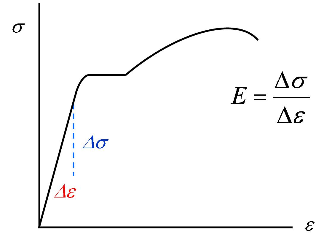 Stress-strain curve.